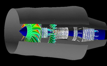 Simulation of air flow through the GE90 turbofan engine (with a simplified combustion process model), carried out by NASA and General Electric. The simulation resulted in improved compressor stage design.